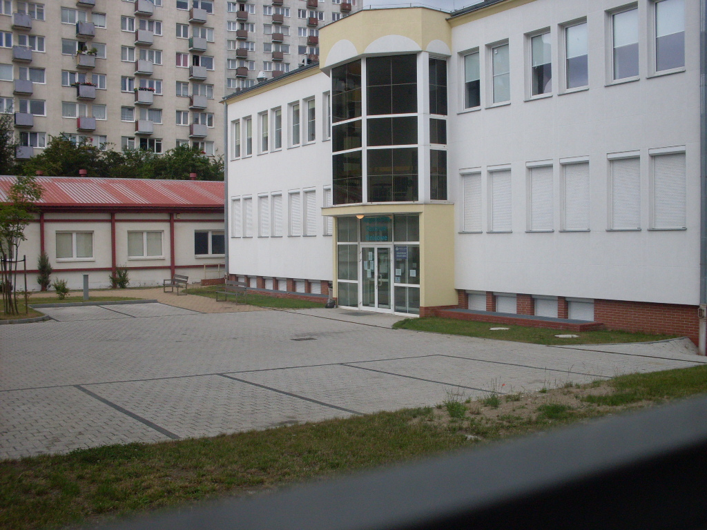 Regional Center of Cyanobacteria. Gdańsk University. At Marszałka Piłsudskiego Street in Gdynia.